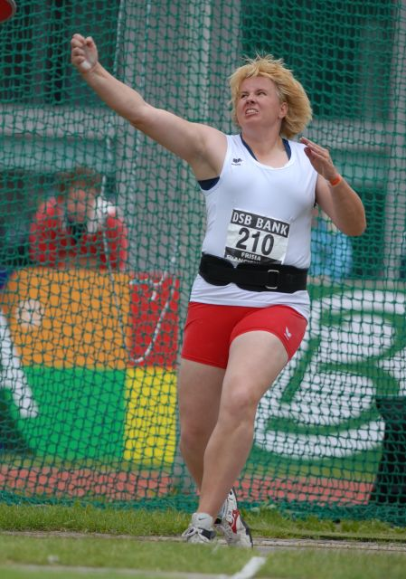 Monique Jansen during Dutch Championship 2007 in Amsterdam